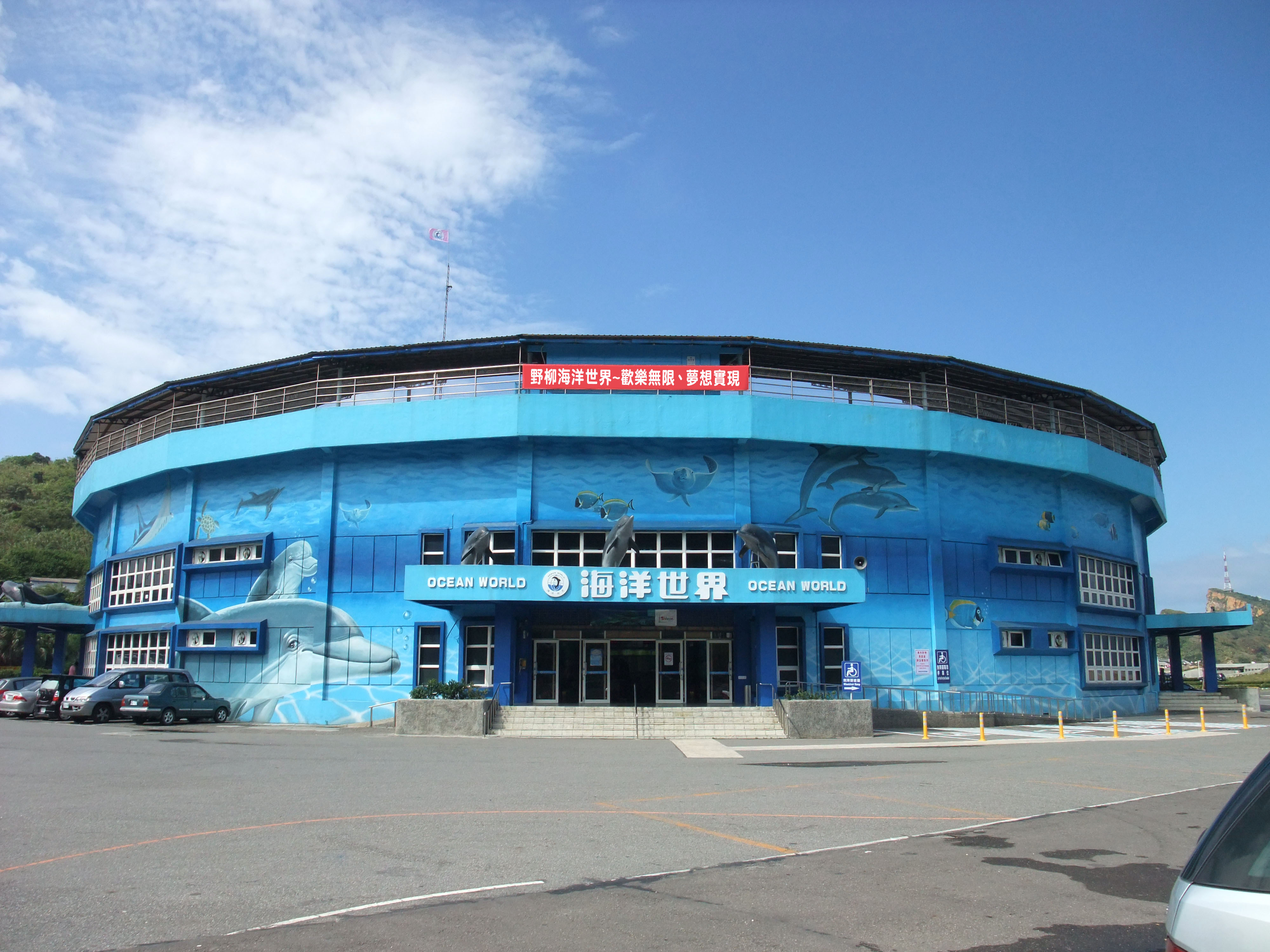 Yehliu Ocean World Hall